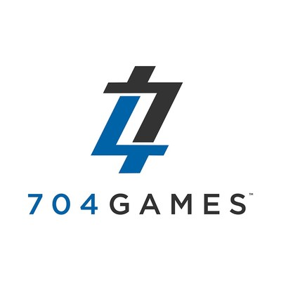 704 games logo